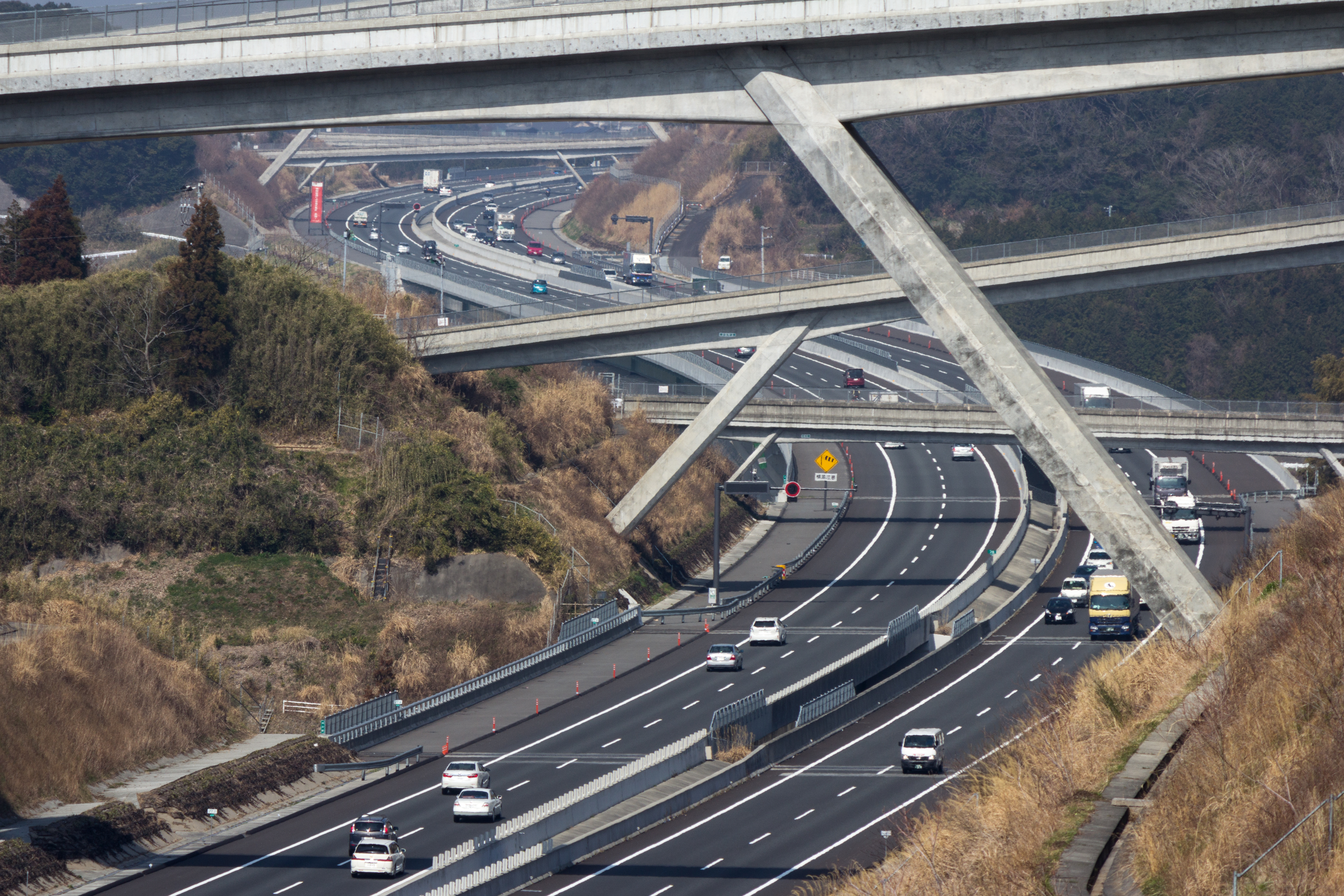 Shin-Tōmei Expressway in Fuji, Shiuzoka Prefecture.